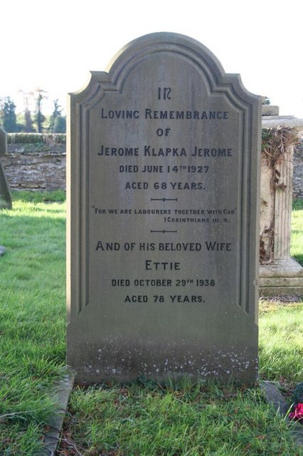 Jerome Klapka Jerome Better known as Jerome K Jerome author of Three men in a boat